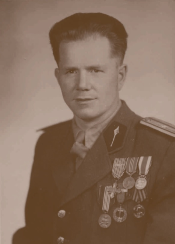 Image of Czech veteran and author Alfréd Mrůzek